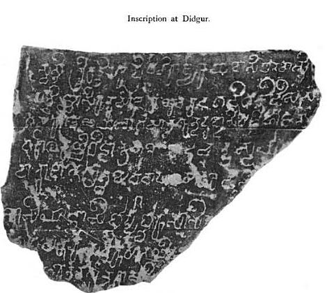 Didgur is a village in the Dharwad district of Karnataka state, India